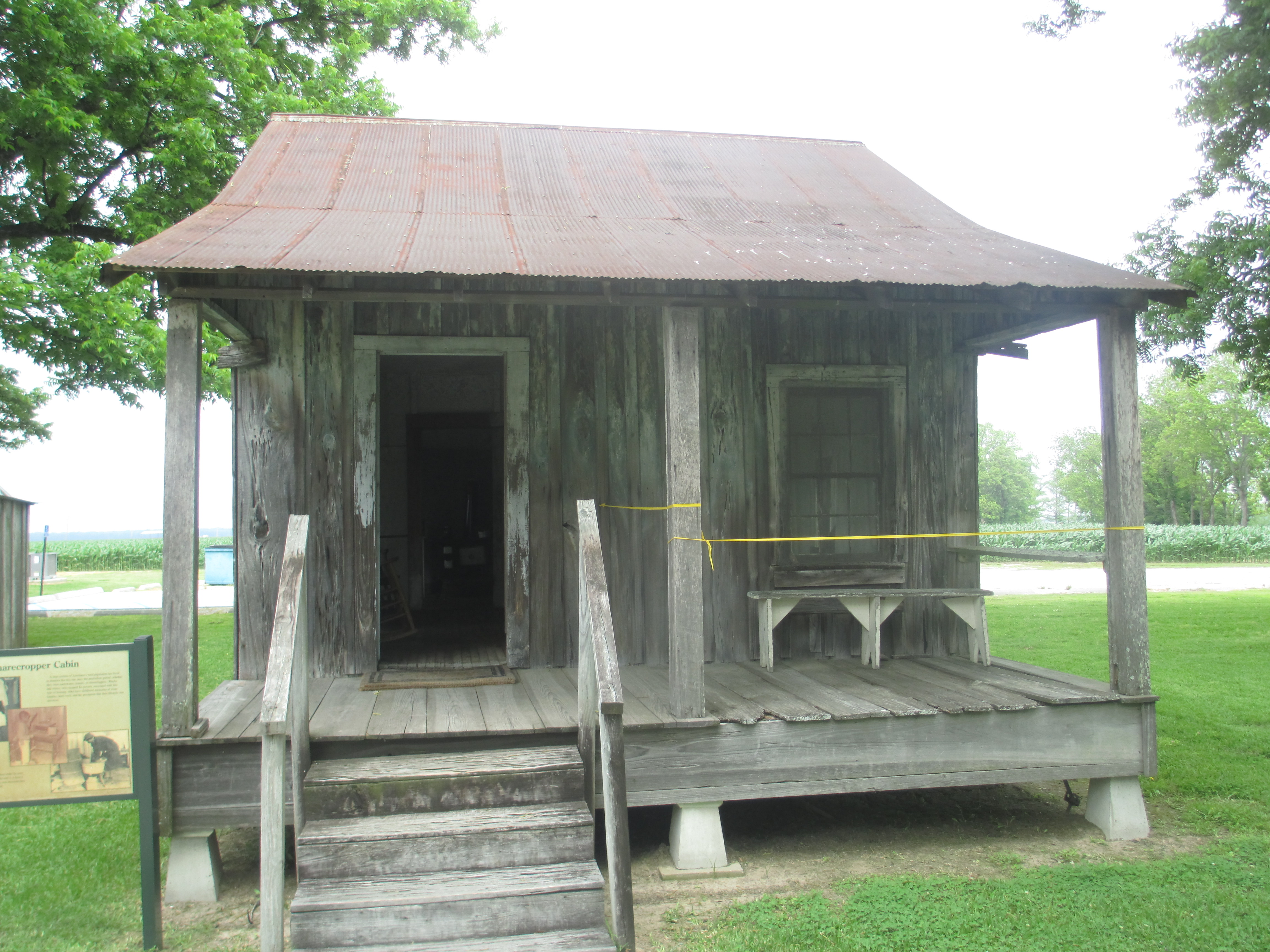 I took photo of sharecropper's cabin at Louisiana State Cotton Museum in Lake Providence, LA, with Canon camera.